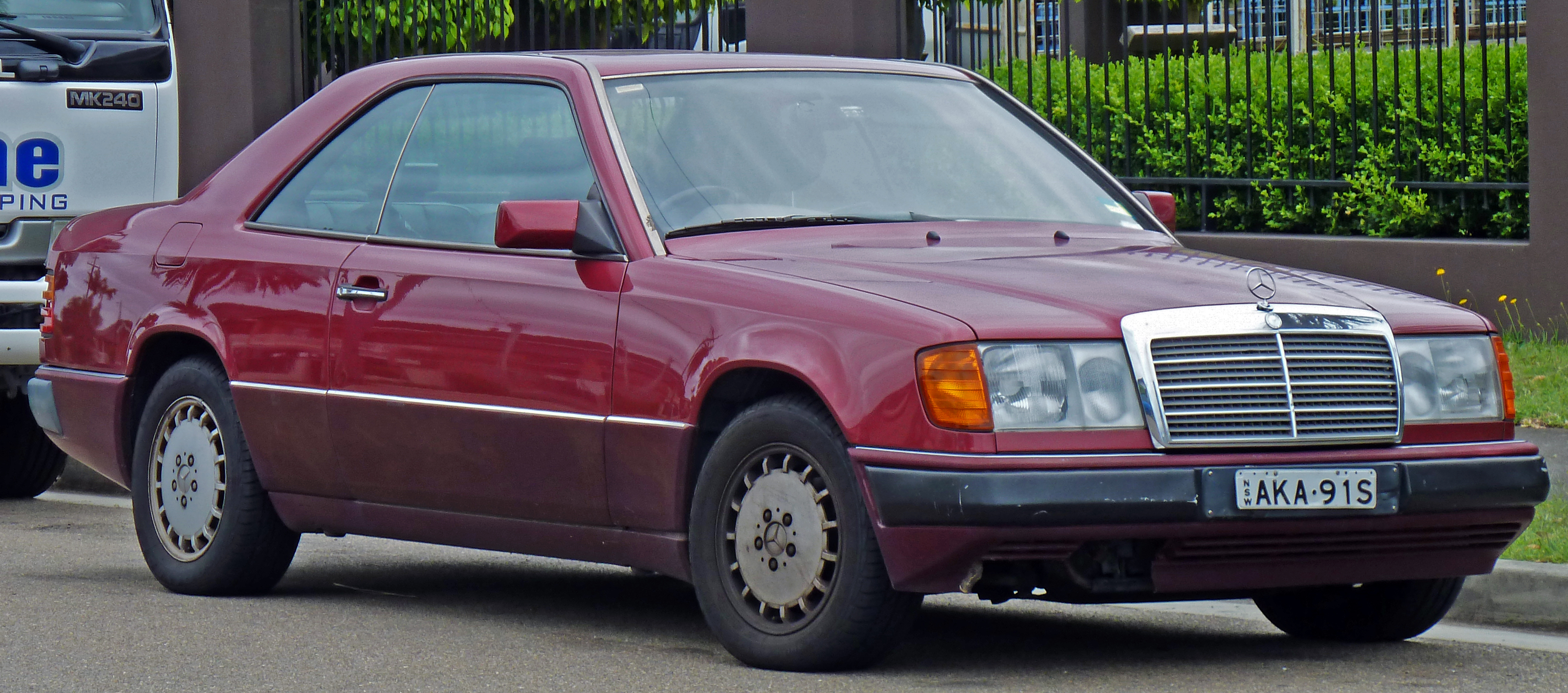 1991 Mercedes-Benz 300 CE-24 (C 124) coupe. Photographed in Sans Souci, New South Wales, Australia.